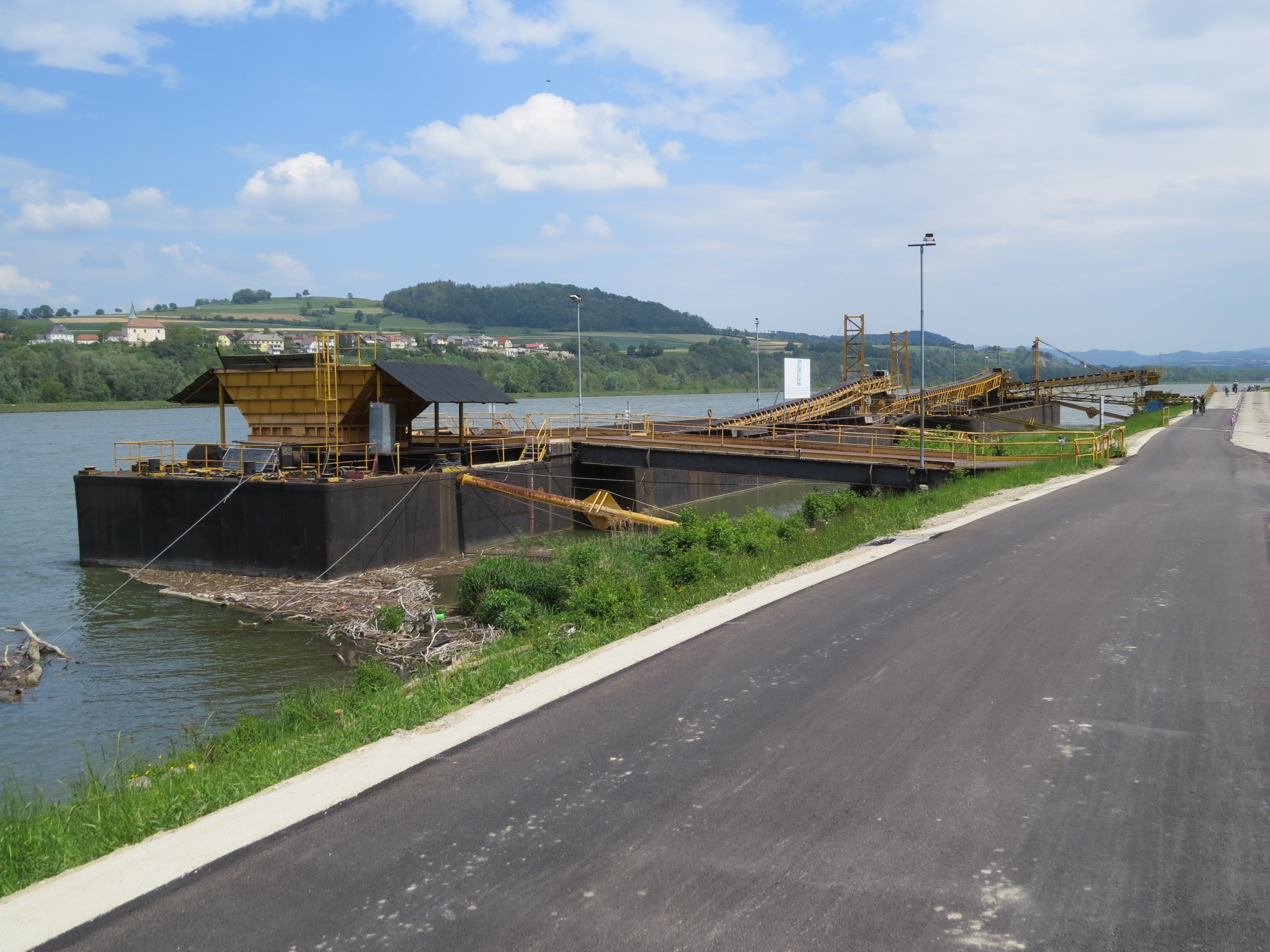 Production plant of Lasselsberger near EuroVelo 6 in Pöchlarn, Austria